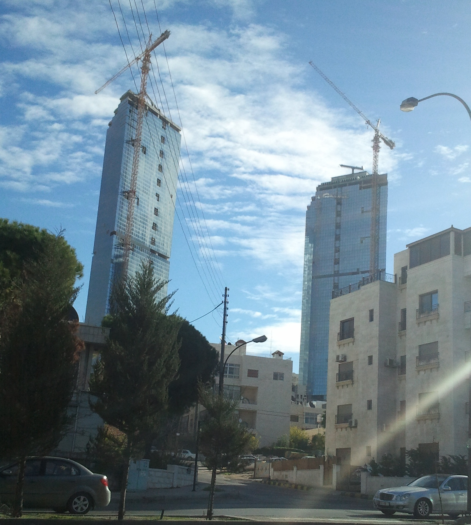 Amman's Gate Towers